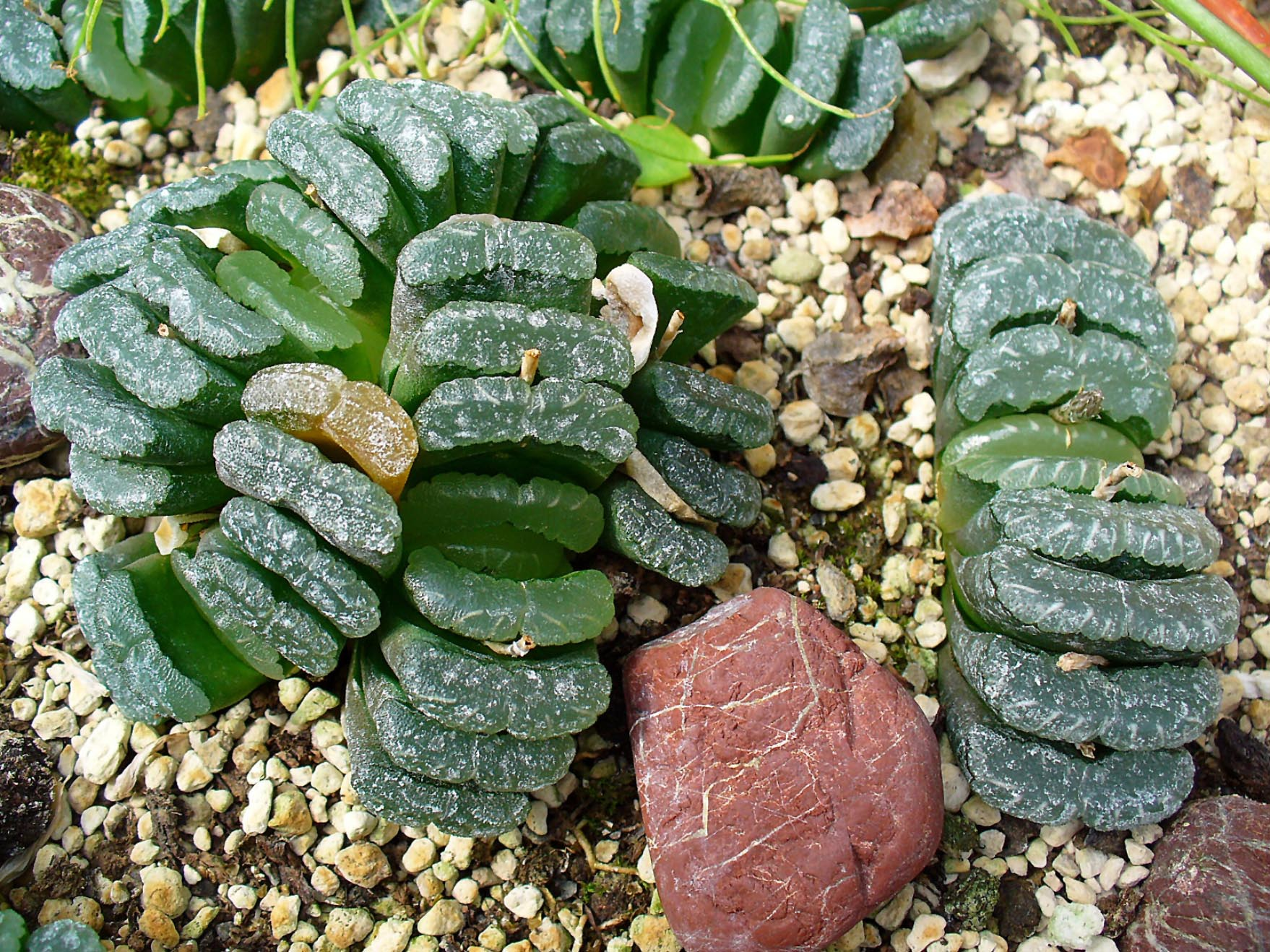 Haworthia truncata, Asphodelaceae, habitus; Botanical Garden KIT, Karlsruhe, Germany.